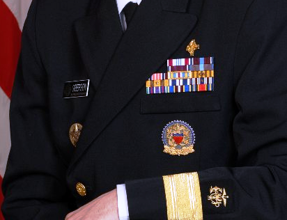 An example image of the United States Public Health Service Commissioned Corps's awards and insignia as worn on the PHSCC Service Dress Uniform